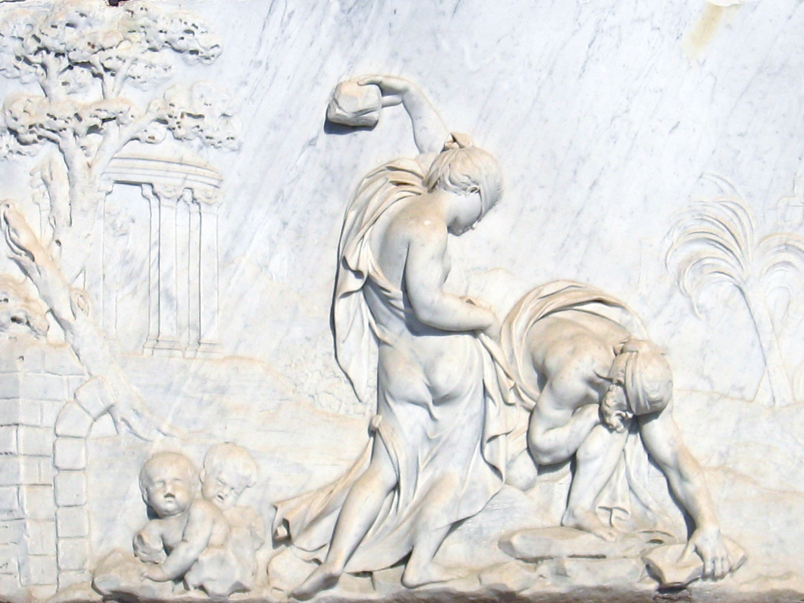 Relief of Deucalion and Pyrrha in the Parc del Laberint d’Horta in Barcelona, Catalonia (Spain).